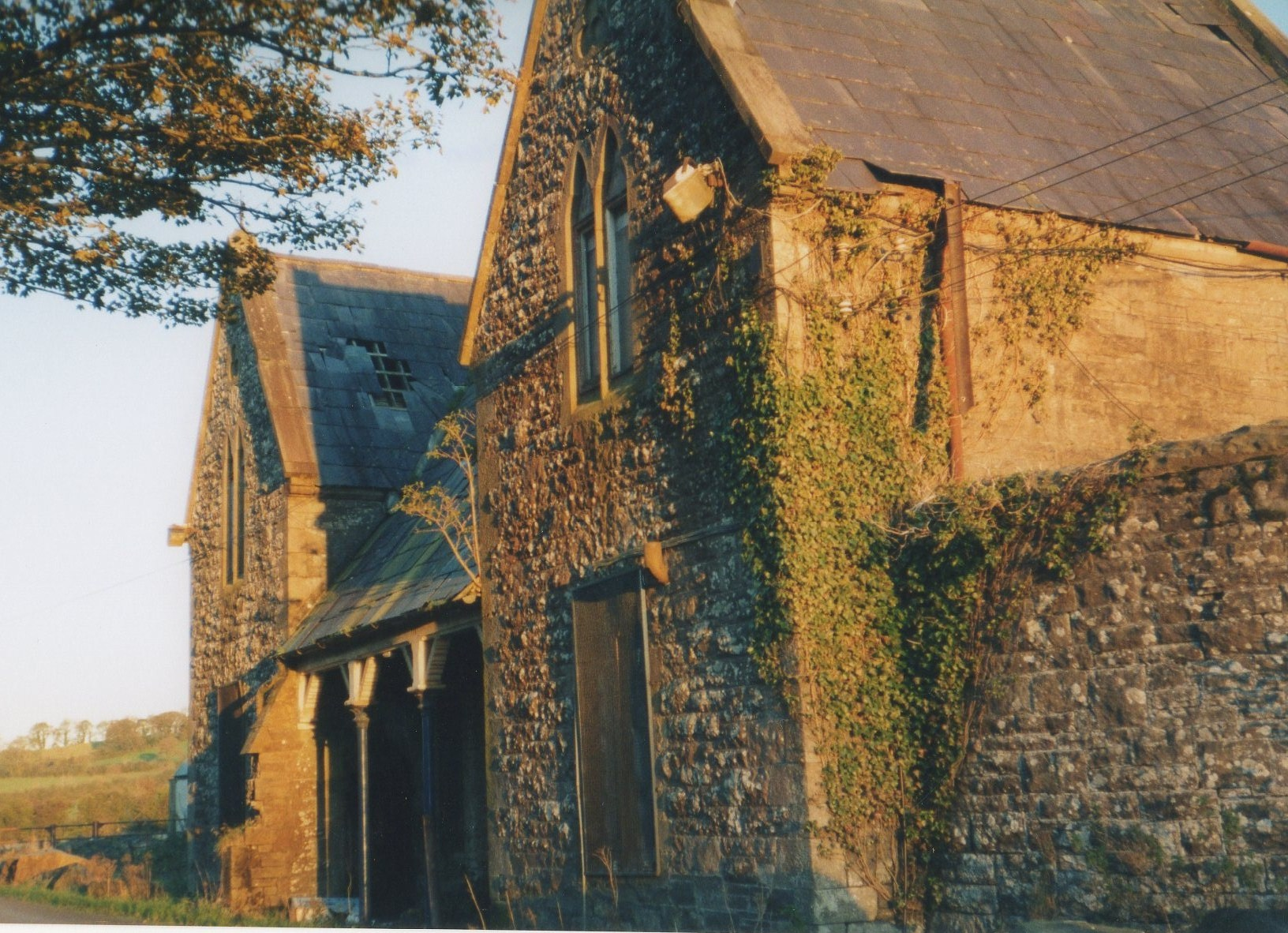 Photo of Cootehill railway station, County Cavan, Ireland